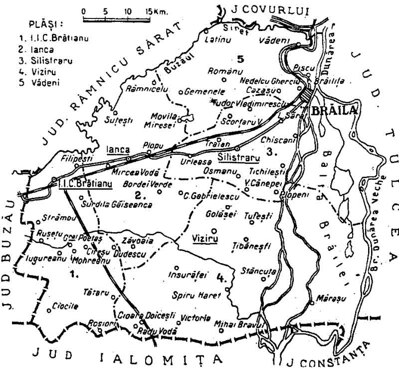 Map of Brăila interwar county, Kingdom of Romania (1938).